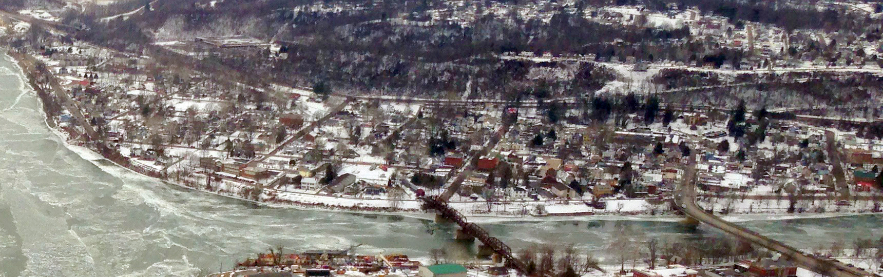 Aerial View Harmar Ohio. January 31, 2014